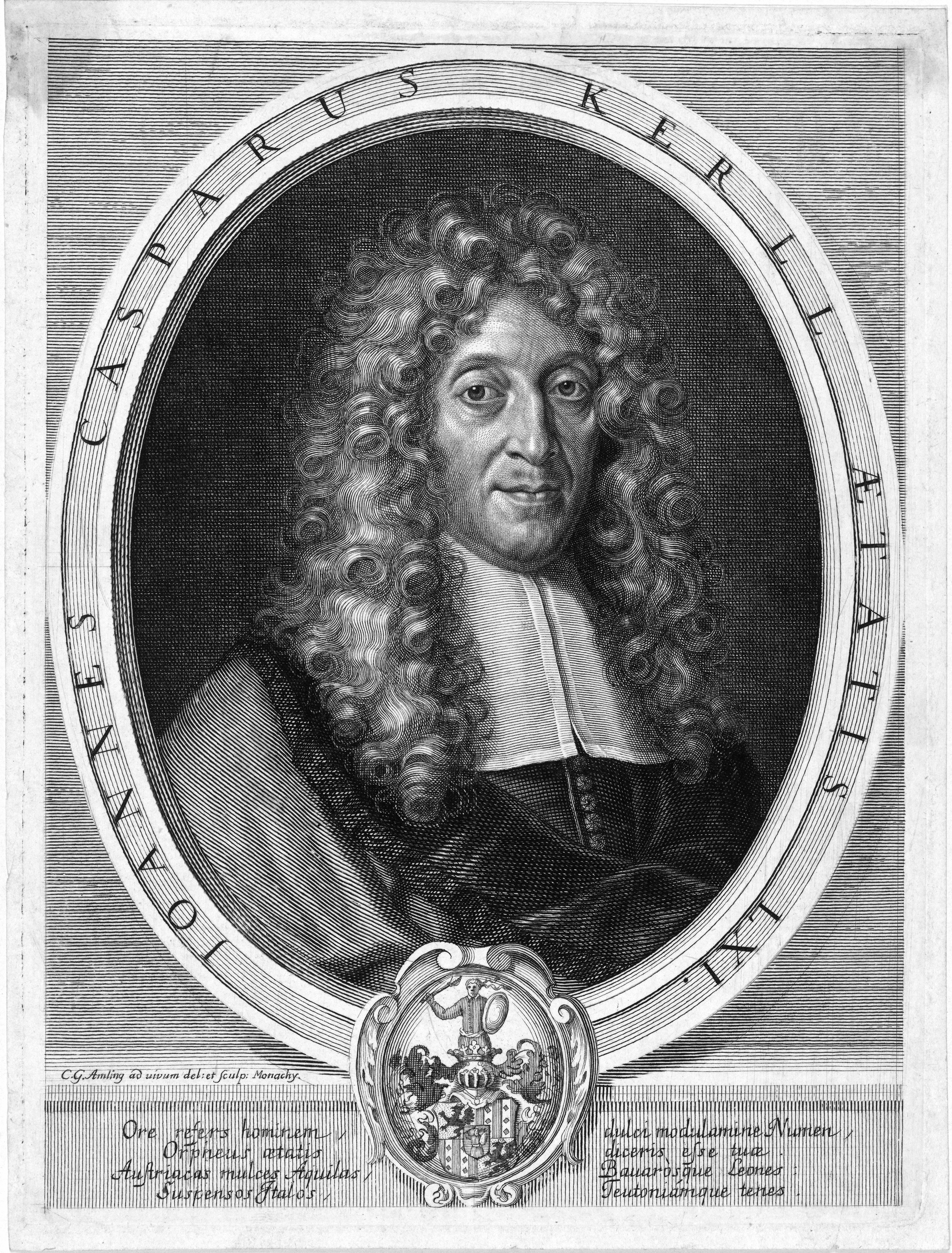 Depicted person: Johann Caspar Kerll